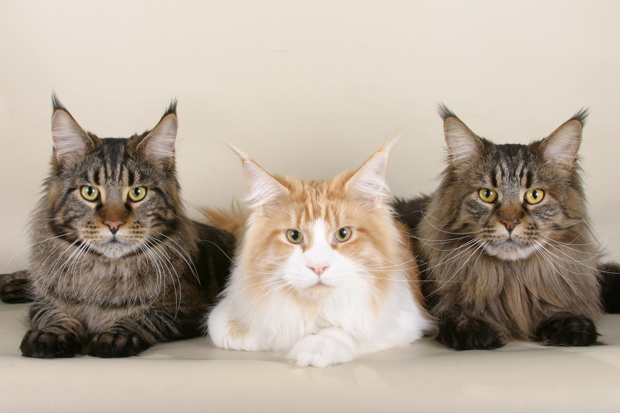 Maine Coon photo